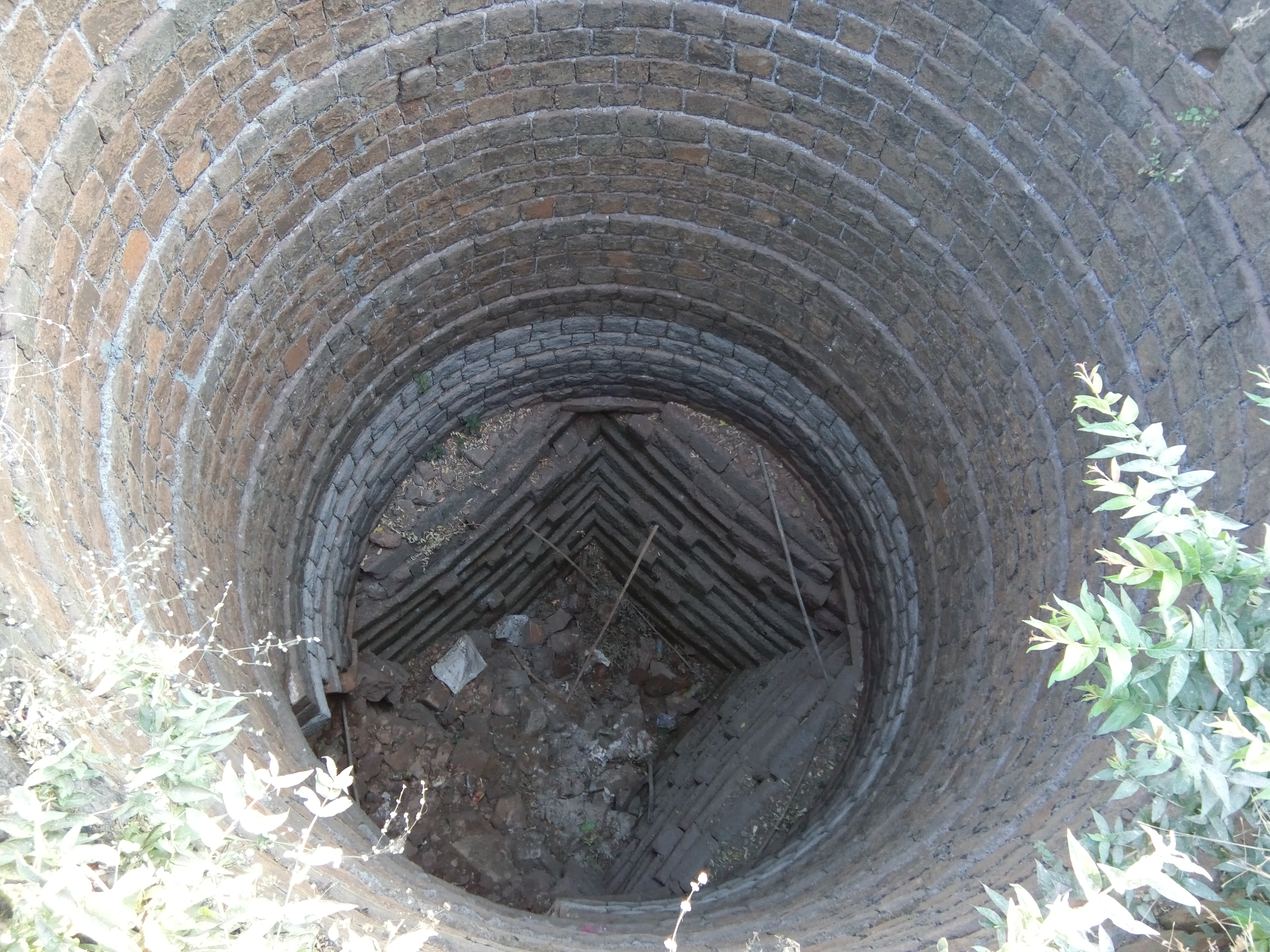 Top view